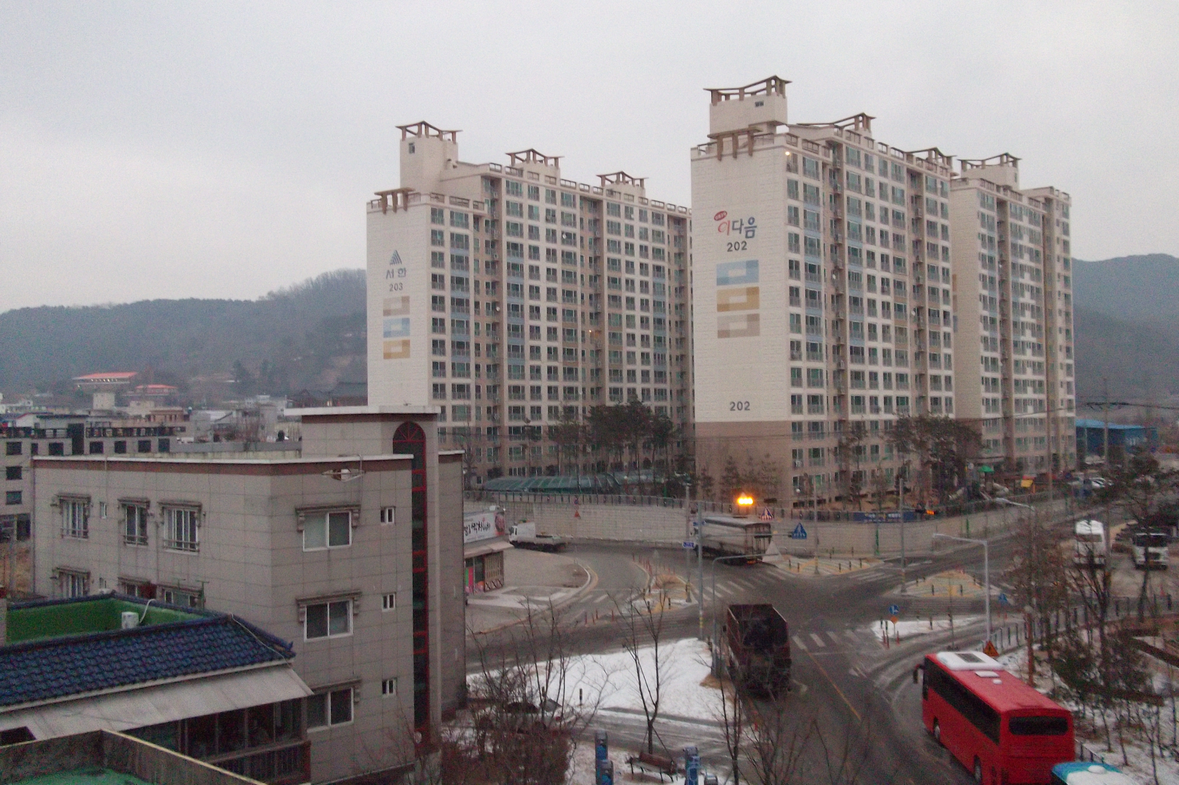 a large housing complex in gumi